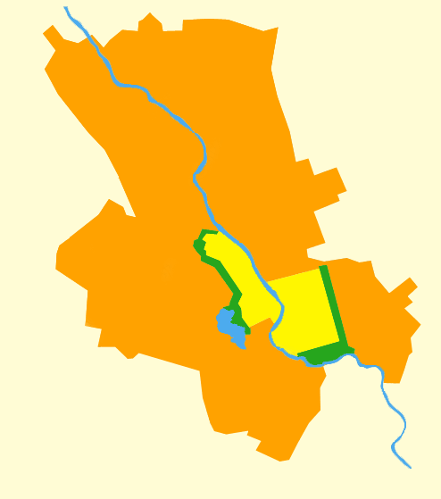 Map of Hamilton, New Zealand. Green represents the Town Belt, Yellow indicates the original city size.